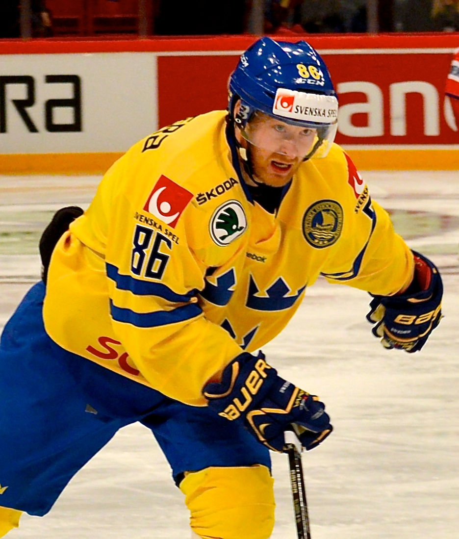 Linus Klasen during Oddset Hockey Games against Russia (2-0) at the Ericsson Globe in Stockholm on May 4th, 2014.